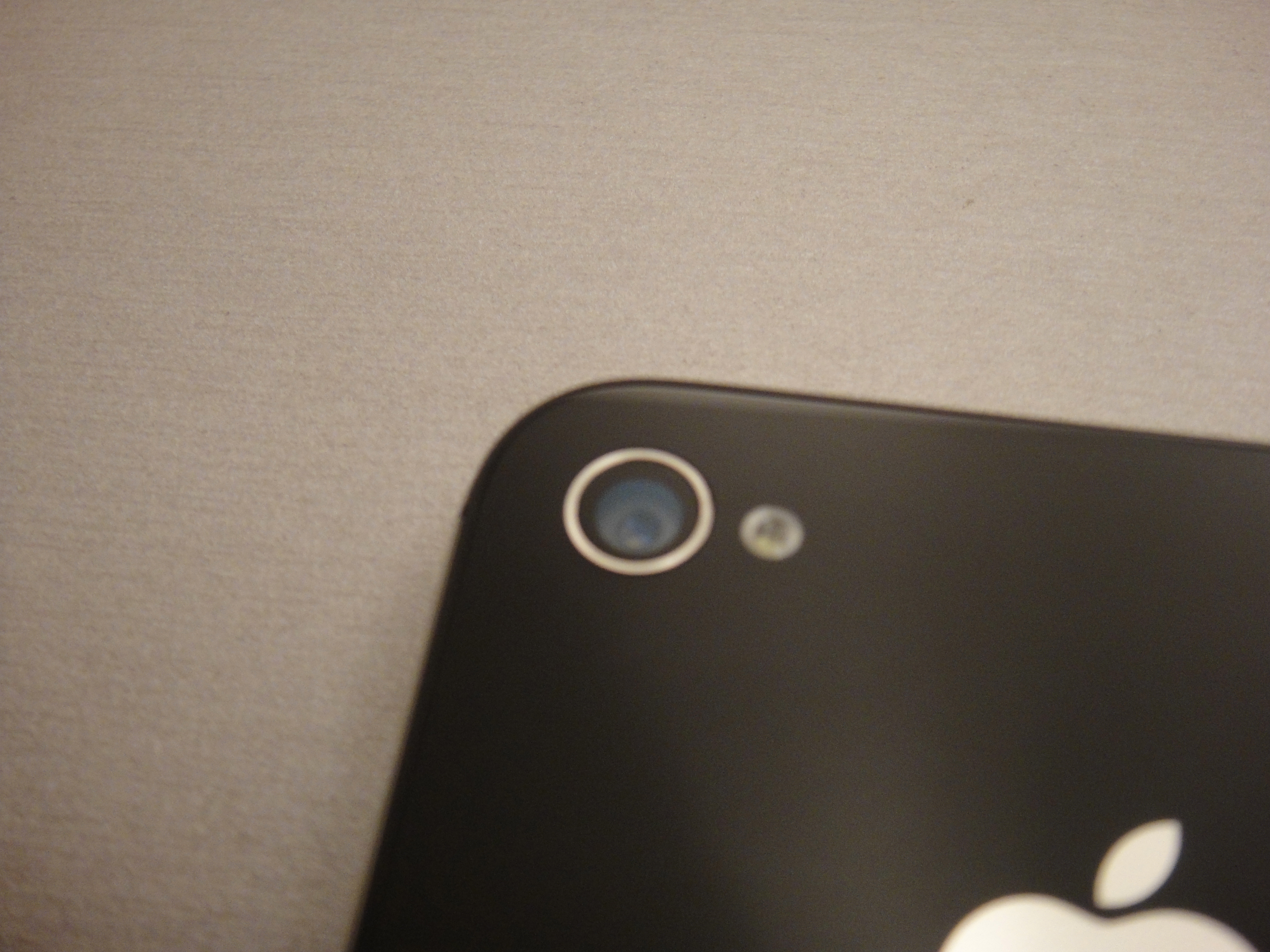 The camera to the iPhone 4S